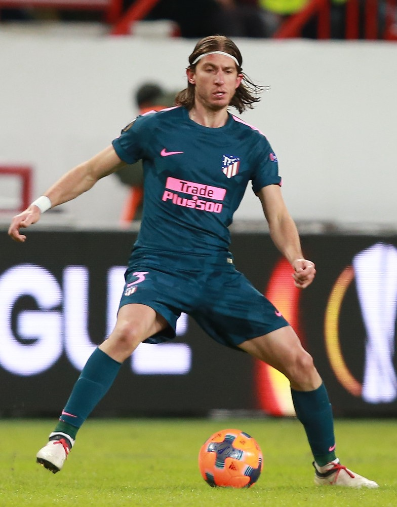 Filipe Luís Kasmirski